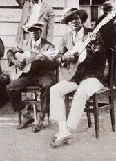 photo of Sexteto Habanero guitarrista y tresista del Sexteto Habanero